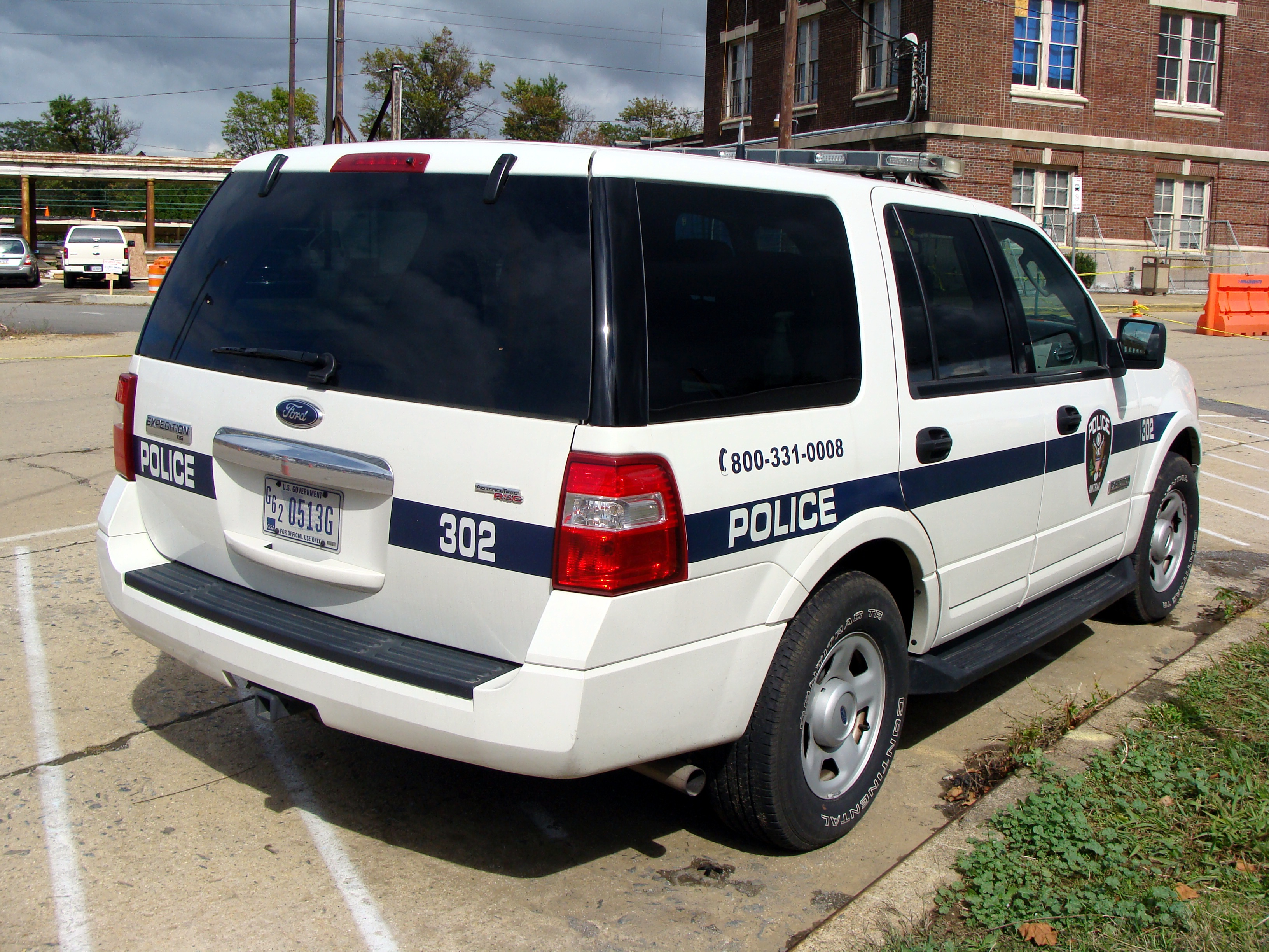 An Amtrak Police SUV at the Lancaster Amtrak station in Lancaster, Pennsylvania.